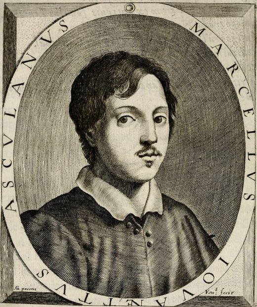 Portrait of the Italian writer Marcello Giovanetti. From the book "Le glorie degli Incogniti", 1647.